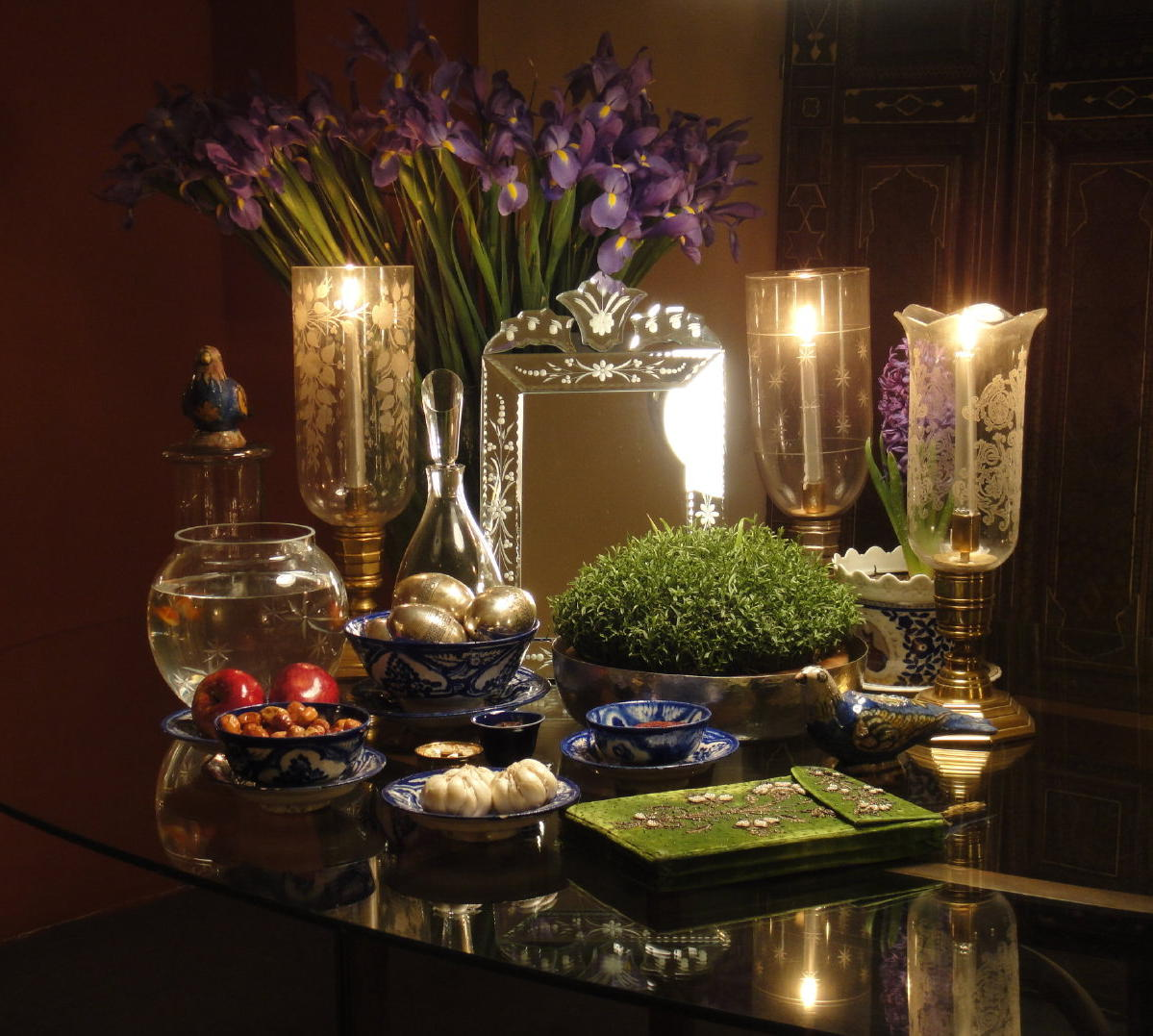 Haft Sin, Tehran, 1389. Nowruz marks the first day of spring and the beginning of the year in Iranian calendar. It is celebrated on the day of the astronomical vernal equinox, which usually occurs on March 21 or the previous/following day depending on where it is observed.